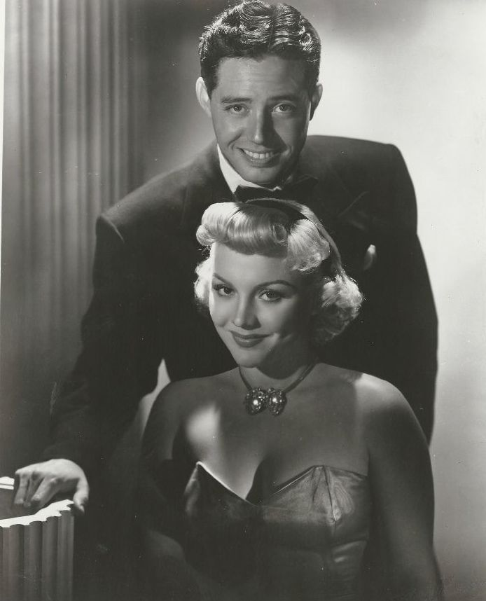 Andy and Della Russell TV Show promotional still 1949.